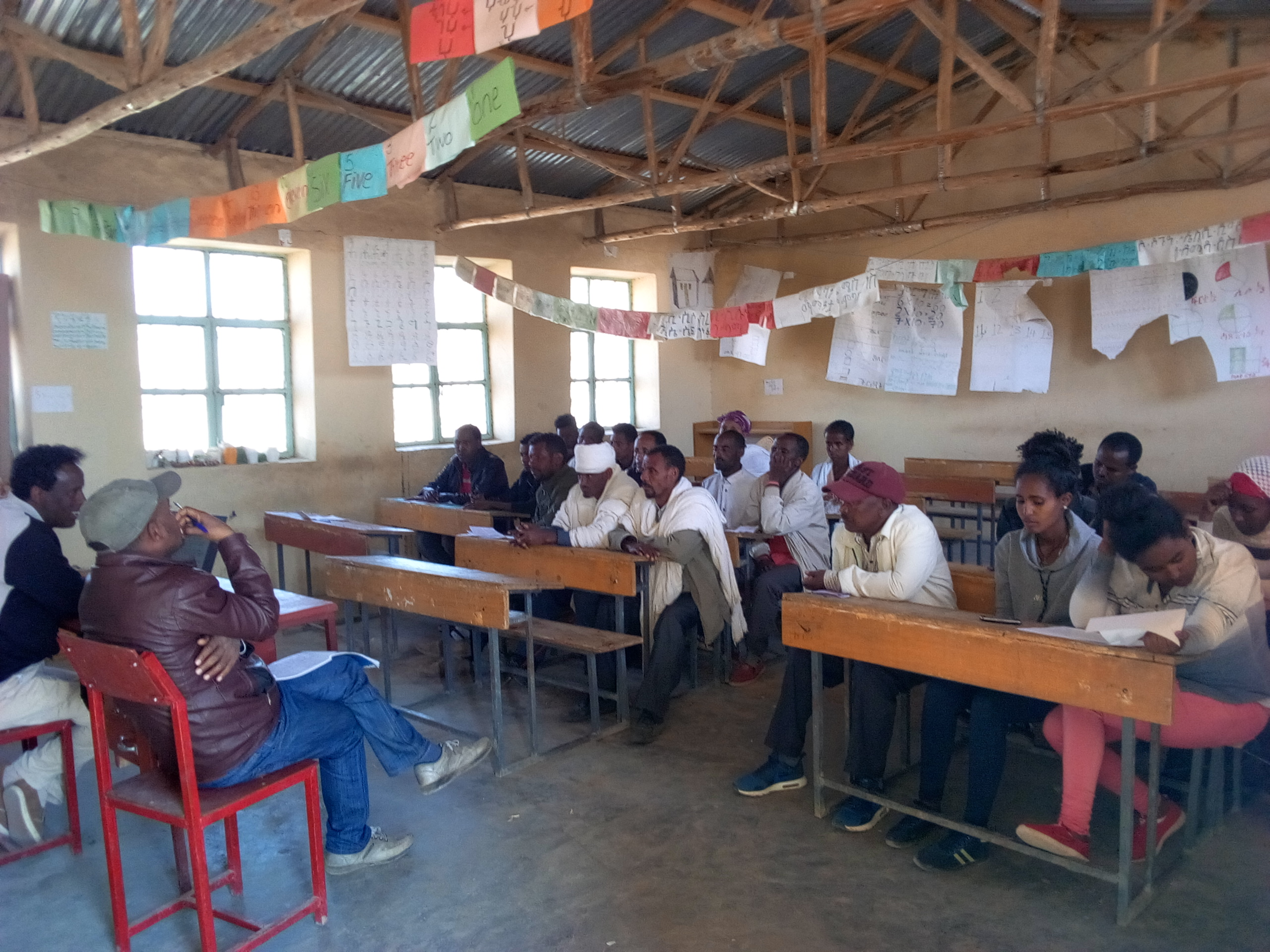 School WatSani training on sanitation